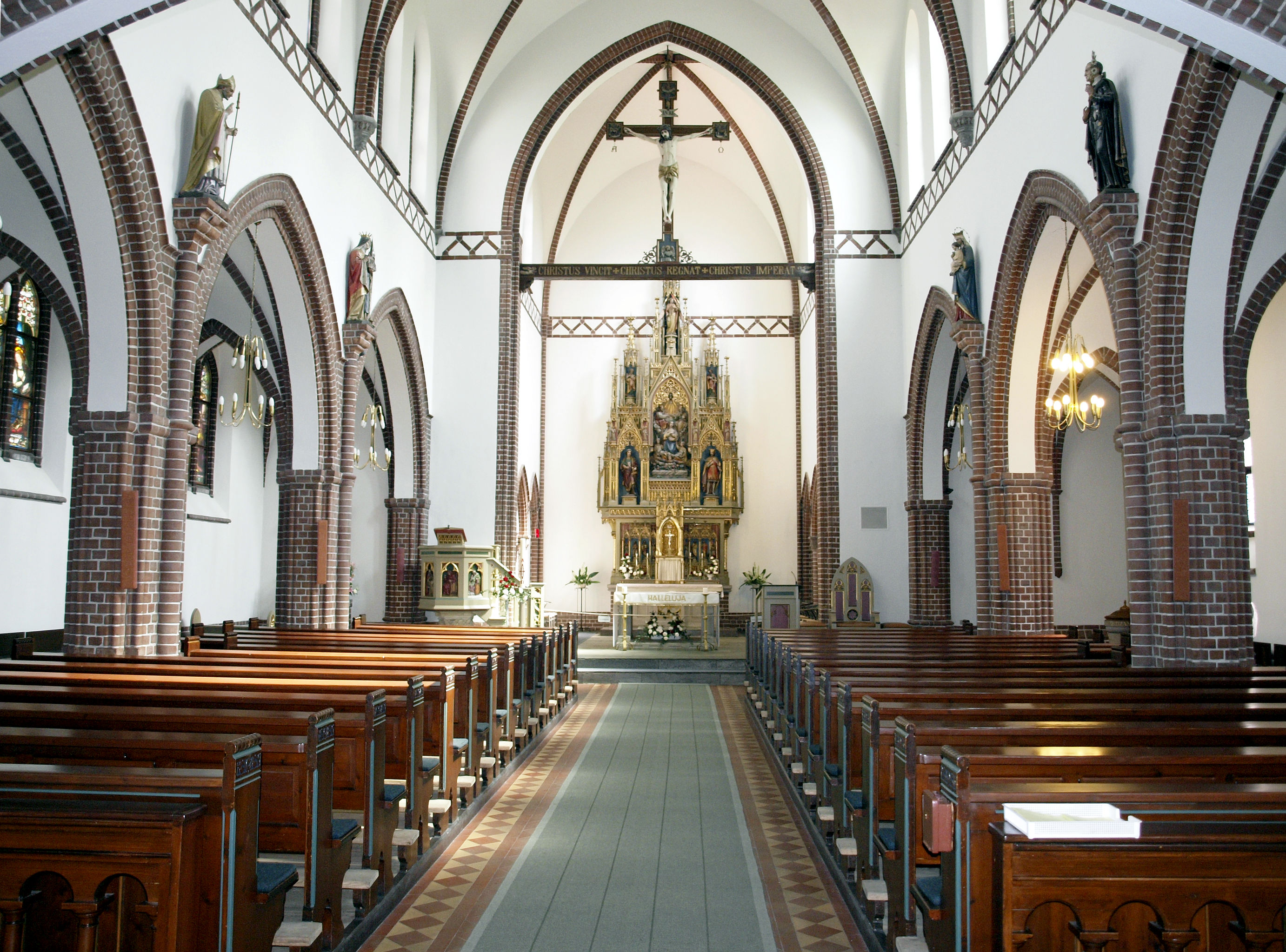 St. Albans Church in Odense, Danmark